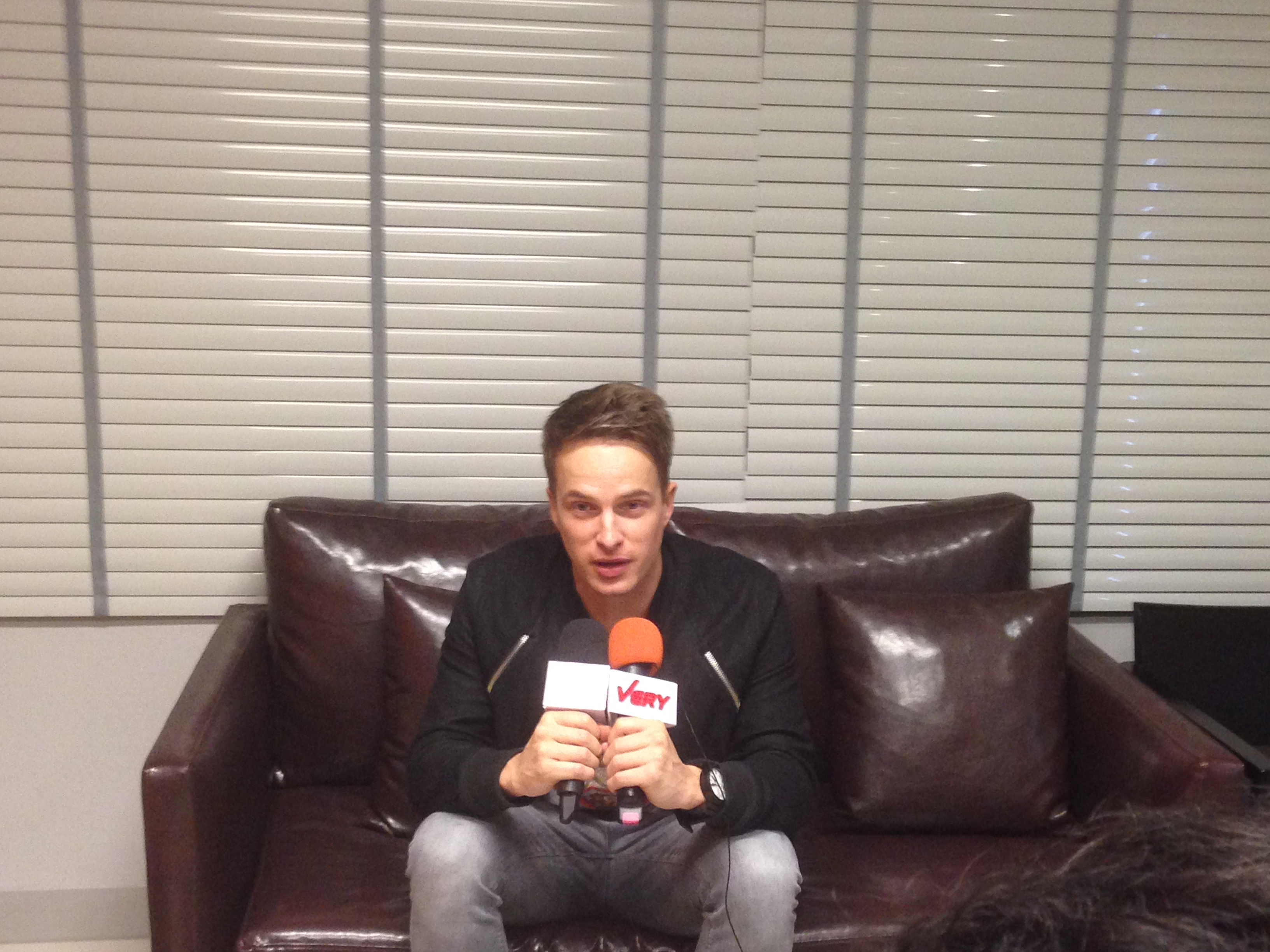 Dannic interviewed with VERY TV.